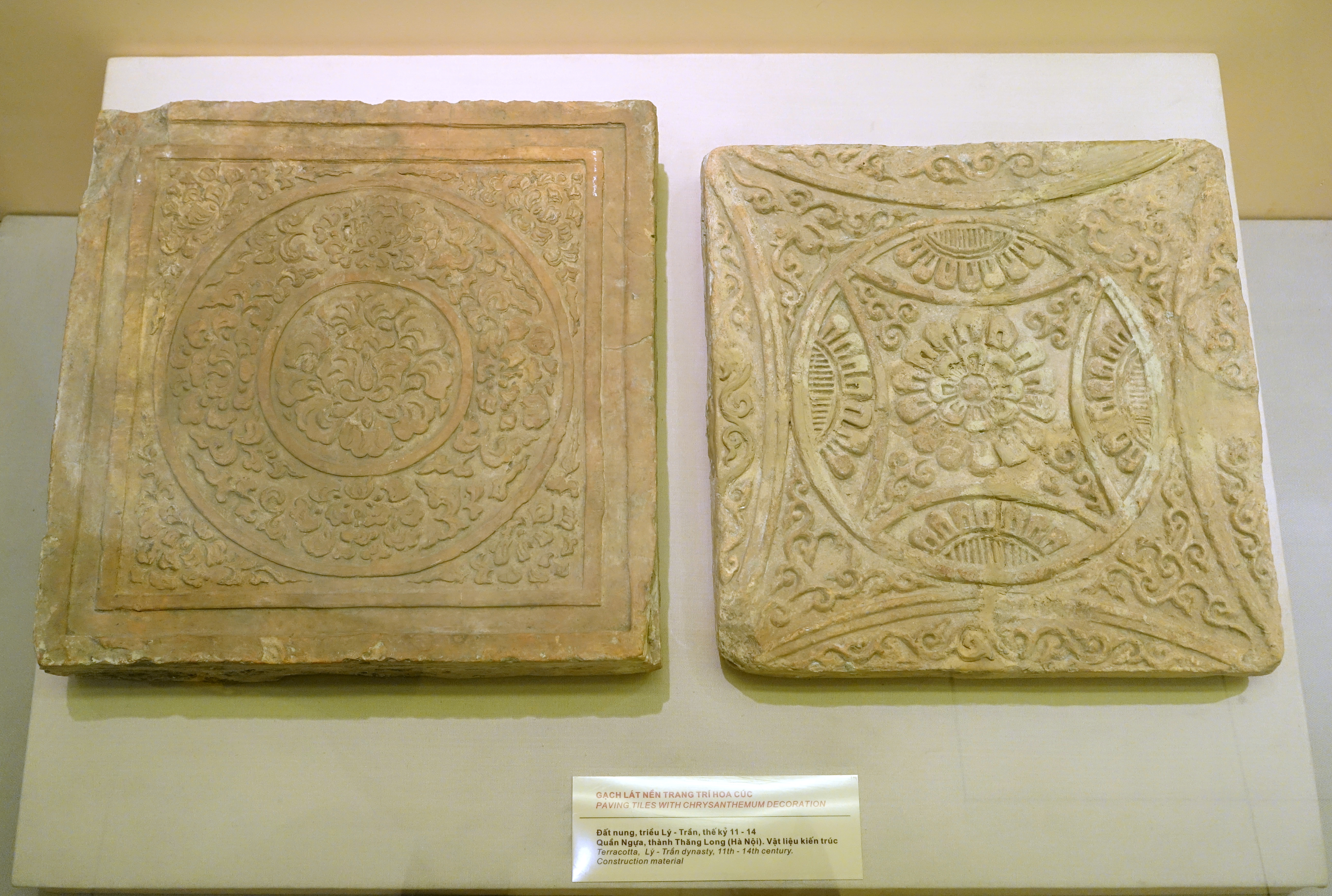 Exhibit in the National Museum of Vietnamese History, Hanoi, Vietnam. This artwork is old enough so that it is in the public domain.